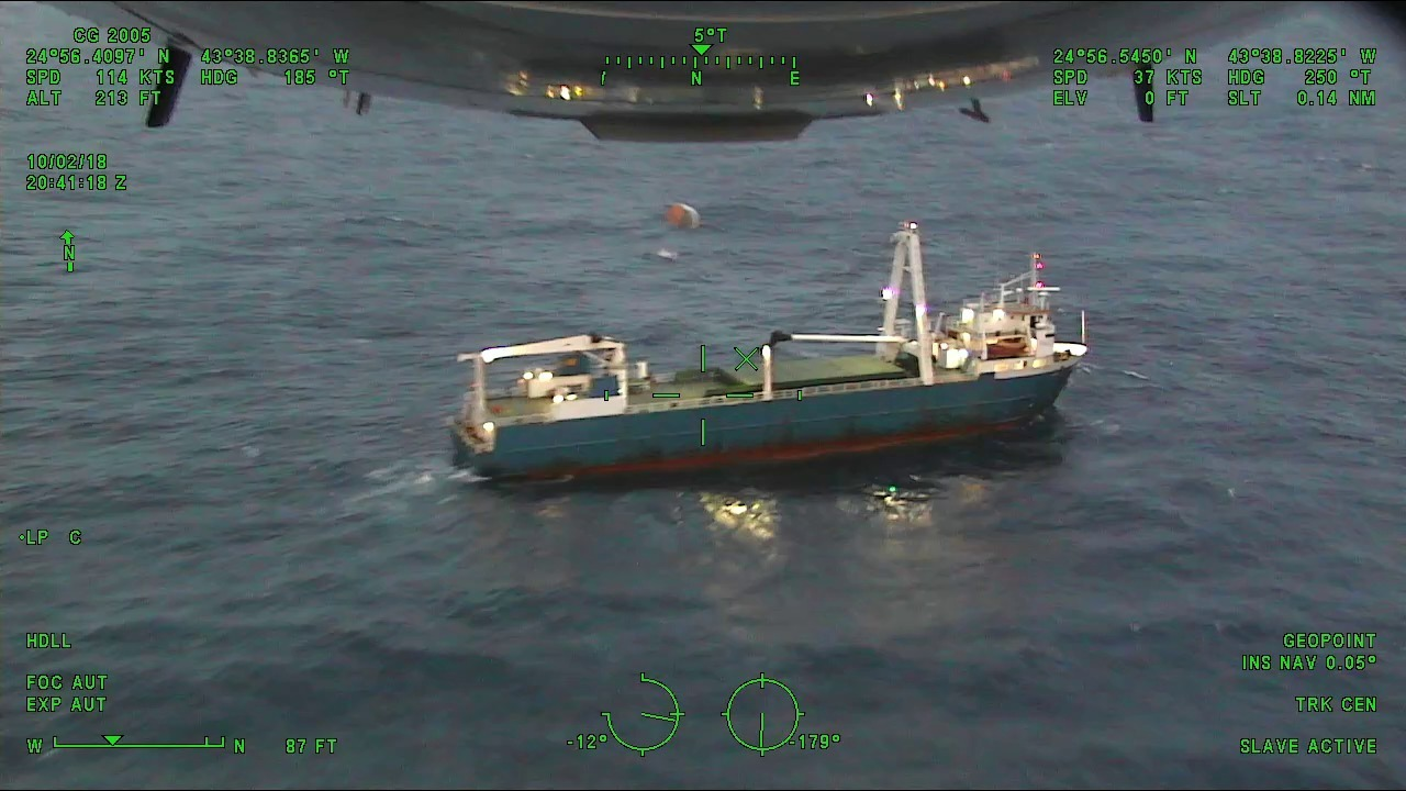 A U.S. Coast Guard aircrew aboard am HC-130 Hercules airplane from Air Station Elizabeth City, North Carolina, airdrops one weeks worth of food to the disabled cargo ship, Alta, approximately 1380 miles southeast of Bermuda, Oct. 2, 2018. The Alta became disabled while in transit from Greece to Haiti.